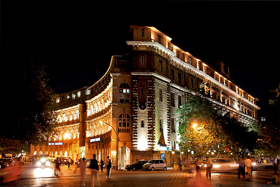 The photograph is of SBI Mumbai Main Branch building taken after sunset to capture the glorious architecture of the gothic styled building that was built during the Raj.